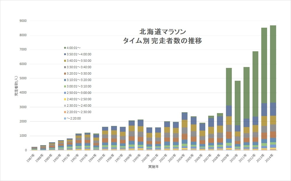 Graph of Hokkaido Marathon Finishers' Time (1987-2014)